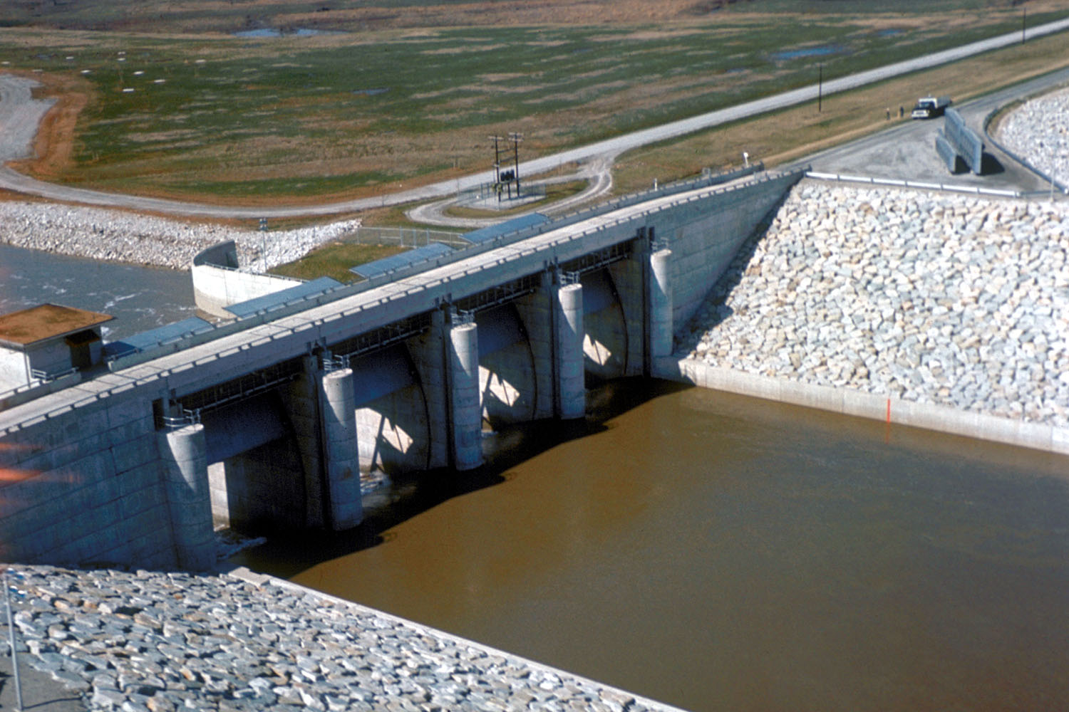 Closeup view of the dam at Caryle Lake, Clinton County, Illinois, USA. The four large tainter gates are fully open.